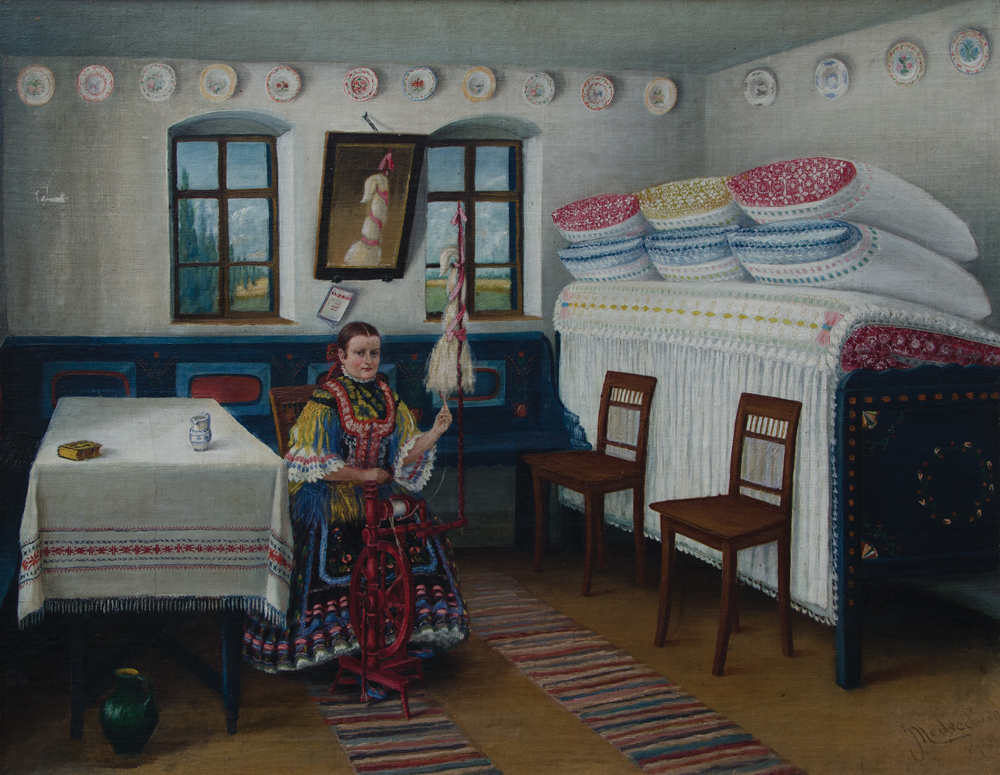 A painting done by Zuzka Medved'ova - The Slovak room at Petrovec (oil on canvas). Inventory number 1.